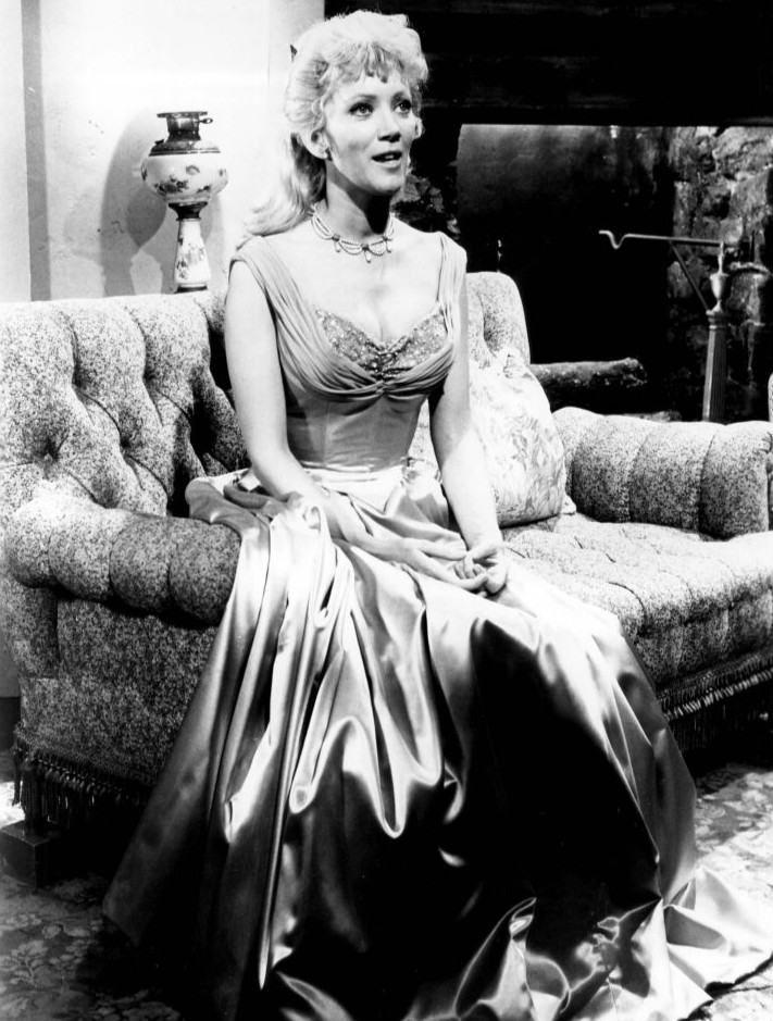 Photo of actress Kathie Browne from an appearance on the television program Bonanza in 1963. Subject Kathie Browne Program "The Waiting Game", an episode of Bonanza Time NBC-TV color series Sundays, 9-10 p.m. EDT. (Episode date to be announced.)